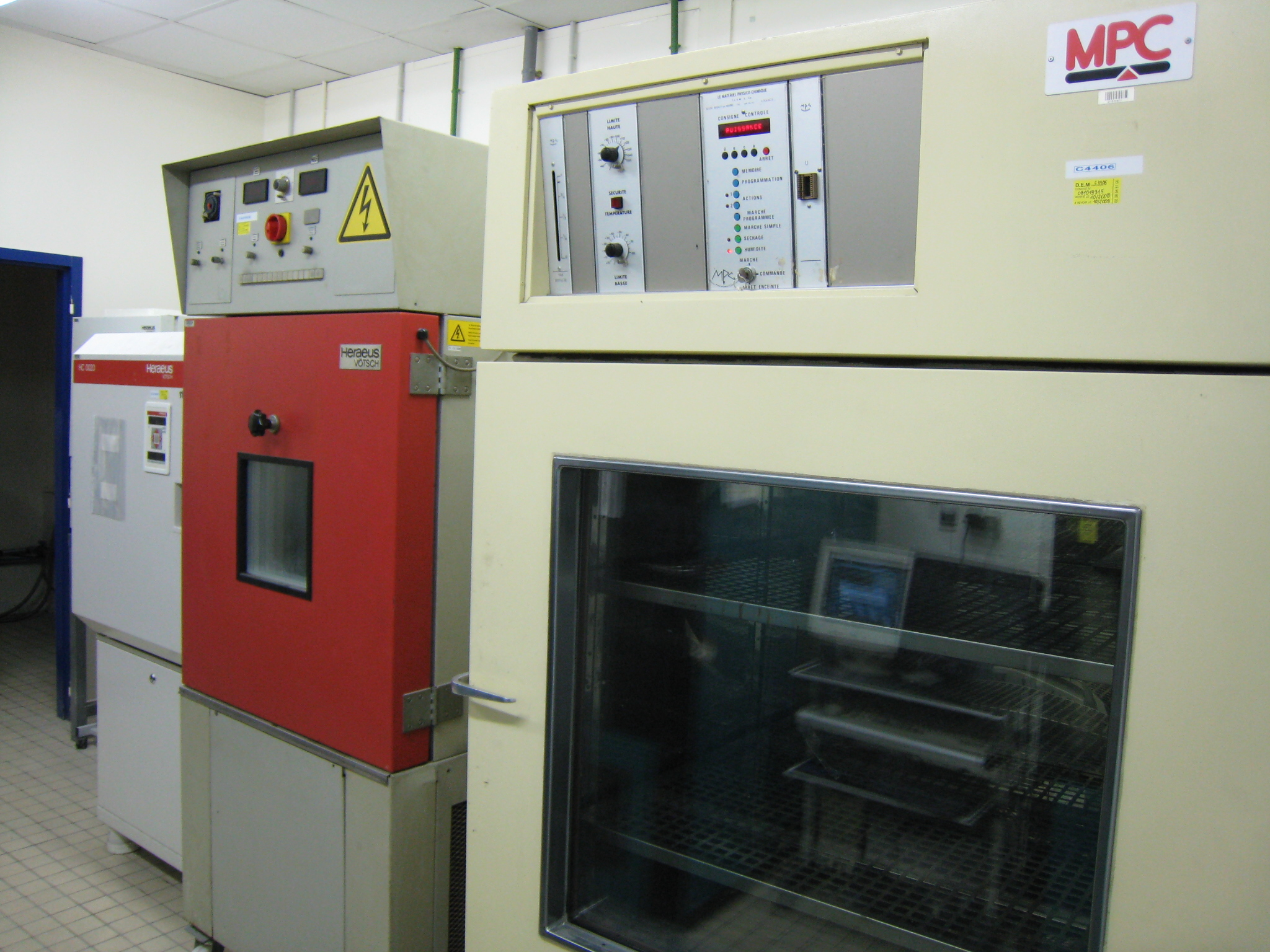 Programmable climatic chambers with automatic control of temperature and humidity, and which can be used to perform repetitive climatic cycles for accelerated ageing tests.